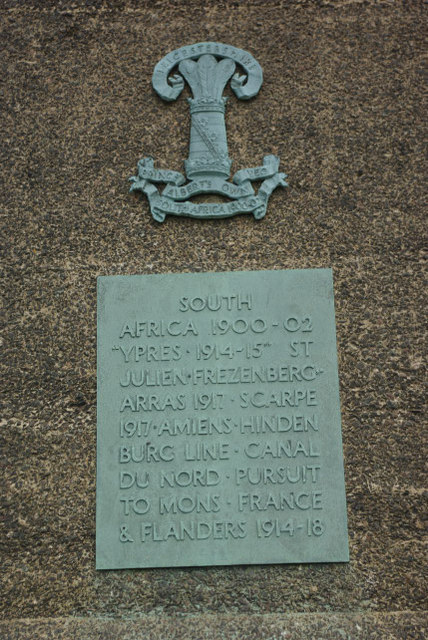 Leicestershire Yeomanry Memorial, Bradgate Park Self-explanatory plaque affixed to one side of the memorial column.